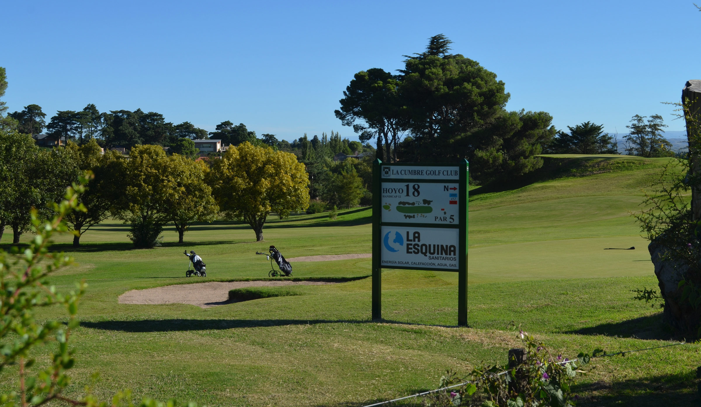 La Cumbre Golf.